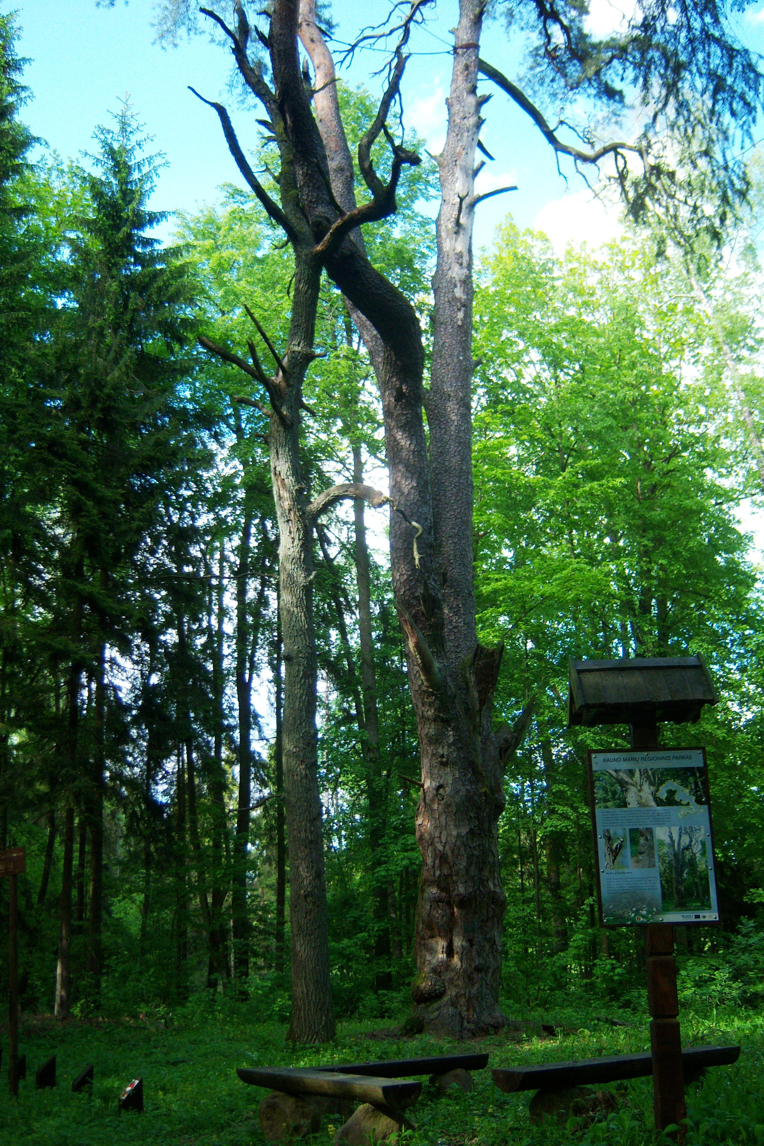 Thickest pine in Lithuania, Rumšiškių forest